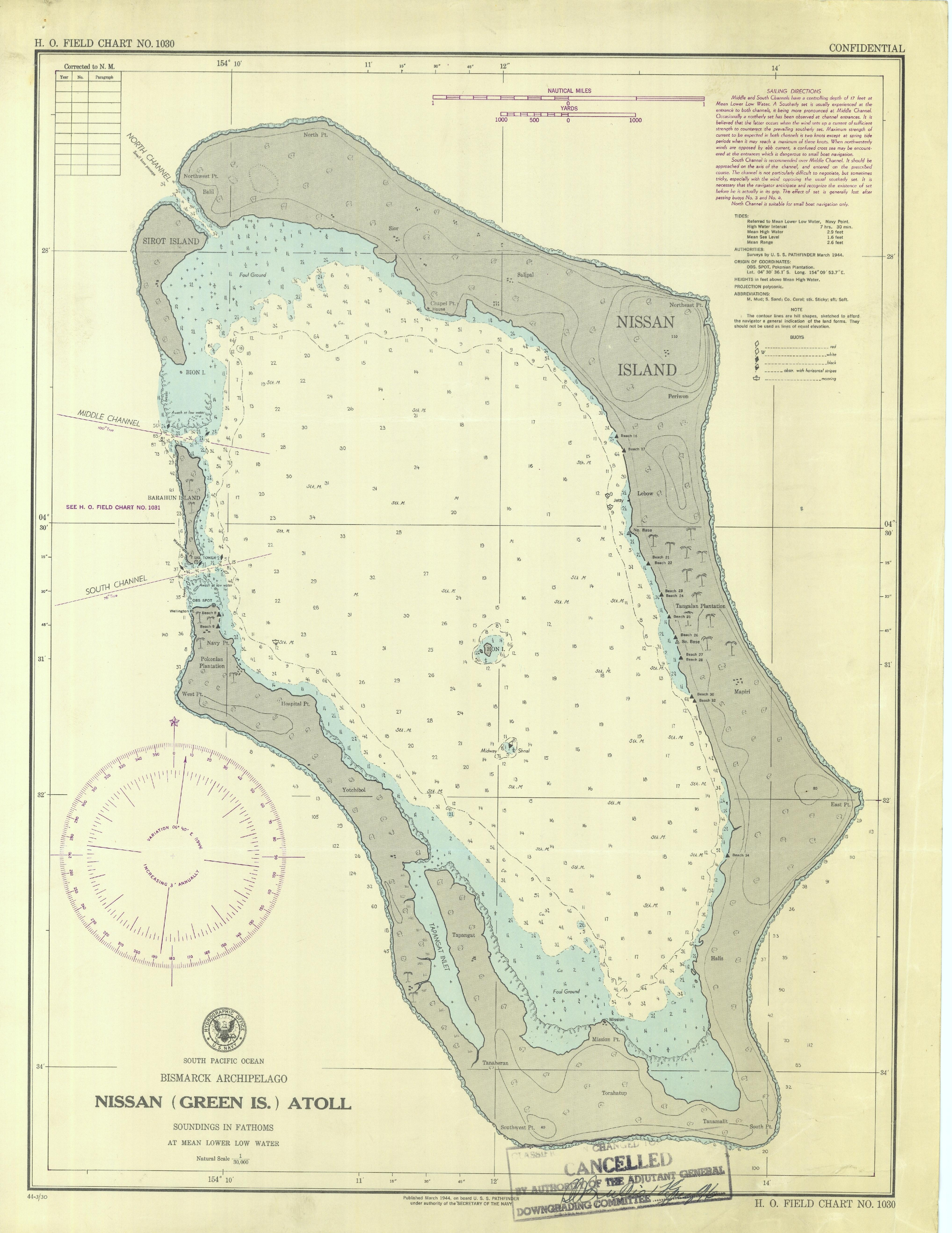 nautical chart of Nissan Atoll, Green Islands, Papua New Guinea